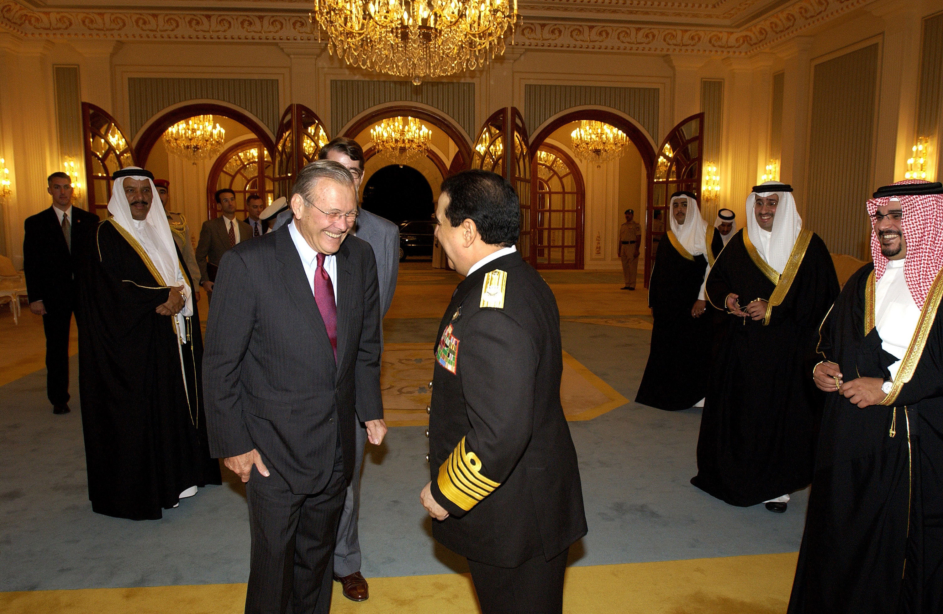 Secretary of Defense Donald H. Rumsfeld (left) is greeted by Crown Prince Salman bin Hamad al Khalifa in the Gudaibiya Palace in Manama, Bahrain, on Oct 9, 2004. Rumsfeld is in Bahrain to attend a bi-lateral meeting with the Crown Prince.